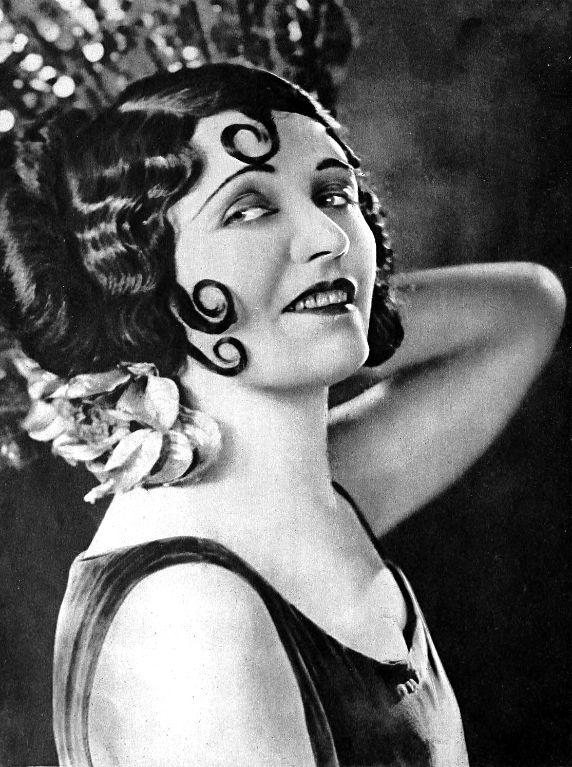 Photograph of Pola Negri in Screenland